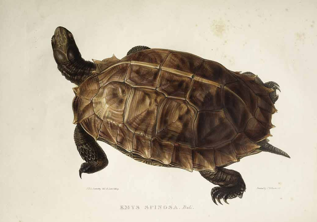 Plate from A Monograph of the Testudinata by Thomas Bell.